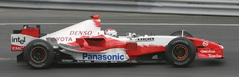 Jarno Trulli driving for Toyota at the 2005 Canadian Grand Prix.